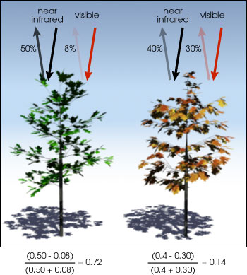 NDVI is calculated from the visible and near-infrared light reflected by vegetation. Healthy vegetation (left) absorbs most of the visible light that hits it, and reflects a large portion of the near-infrared light. Unhealthy or sparse vegetation (right) reflects more visible light and less near-infrared light, yielding a lower NDVI.